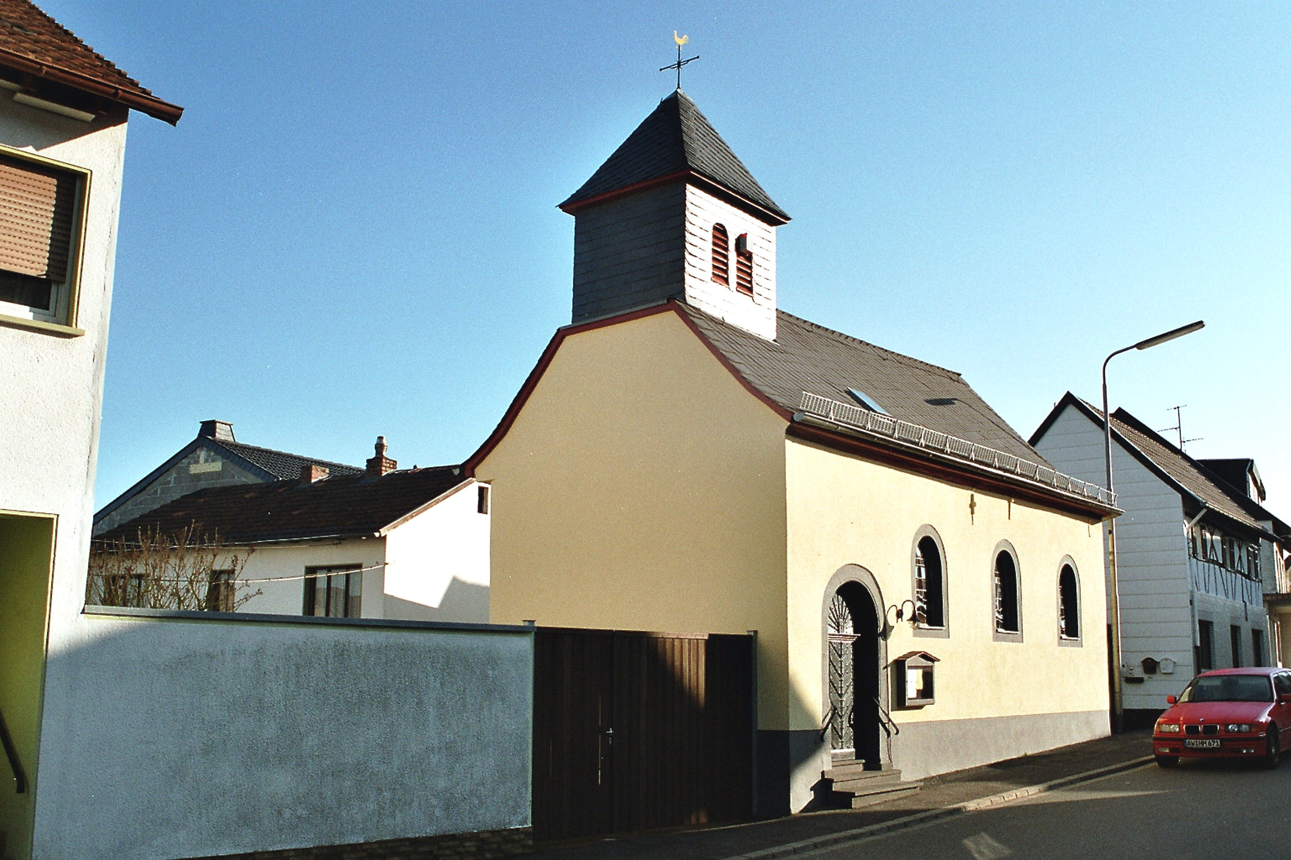 Kalenborn (bei Altenahr), chapel Saint Gereon and Saint Bartholomew